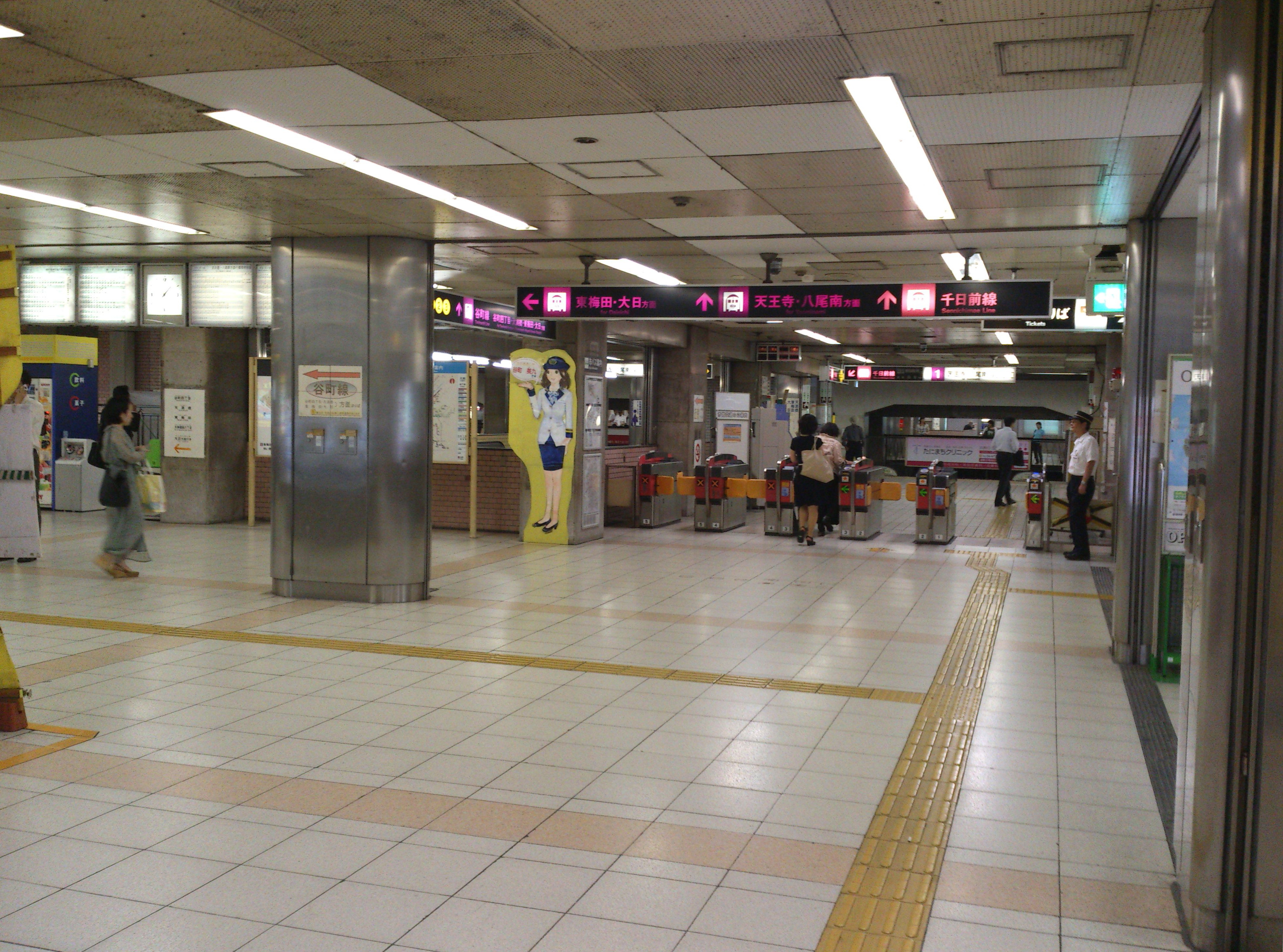 Osaka Municipal Subway Tanimachi 9-chōme Station central gate